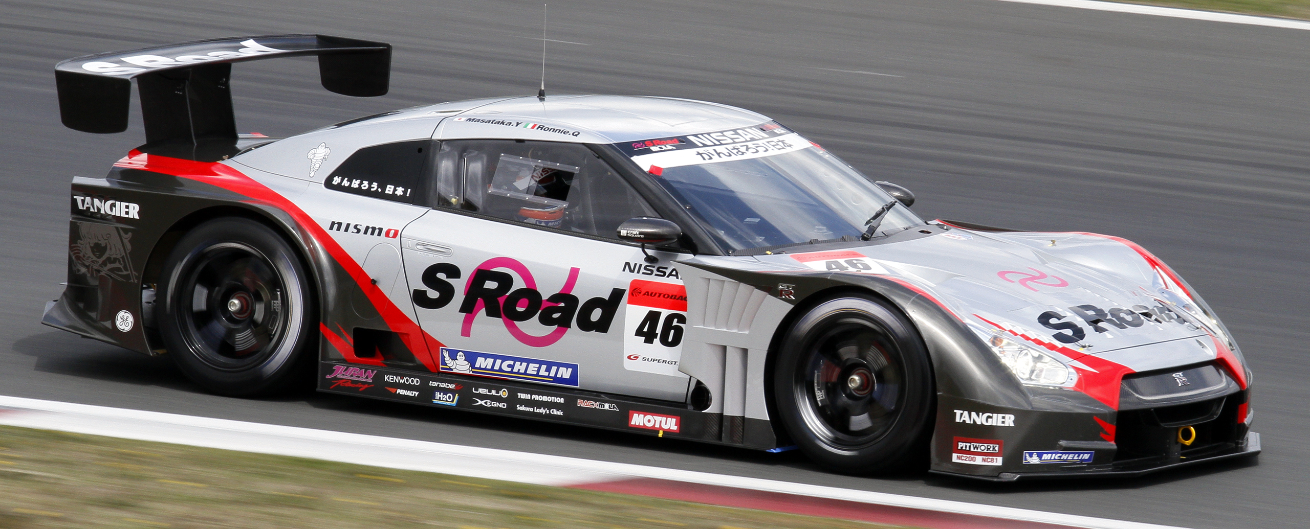 Super GT 2011 Rd.2 Fuji GT 400km: Ronnie Quintarelli (MOLA) driving the Nissan GT-R (S Road MOLA GT-R) during Friday test session.